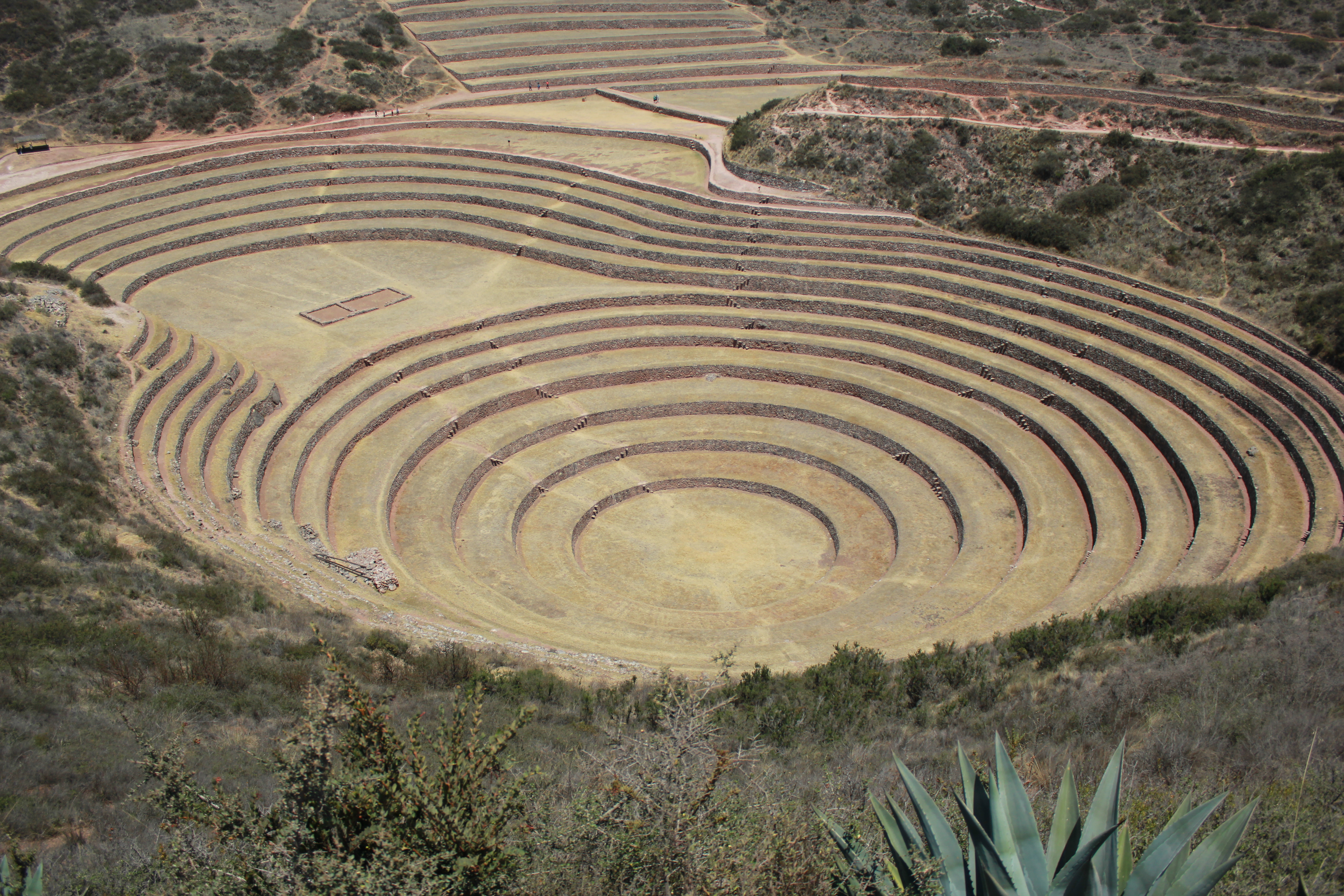 Moray[1][2] (Quechua: Muray)[3] is an archaeological site in Peru approximately 50 kilometres (31 mi) northwest of Cuzco on a high plateau at about 3,500 metres (11,500 ft) and just west of the village of Maras. The site contains unusual Inca ruins, mostly consisting of several terraced circular depressions, the largest of which is approximately 30 m (98 ft) deep. As with many other Inca sites, it also has an irrigation system.